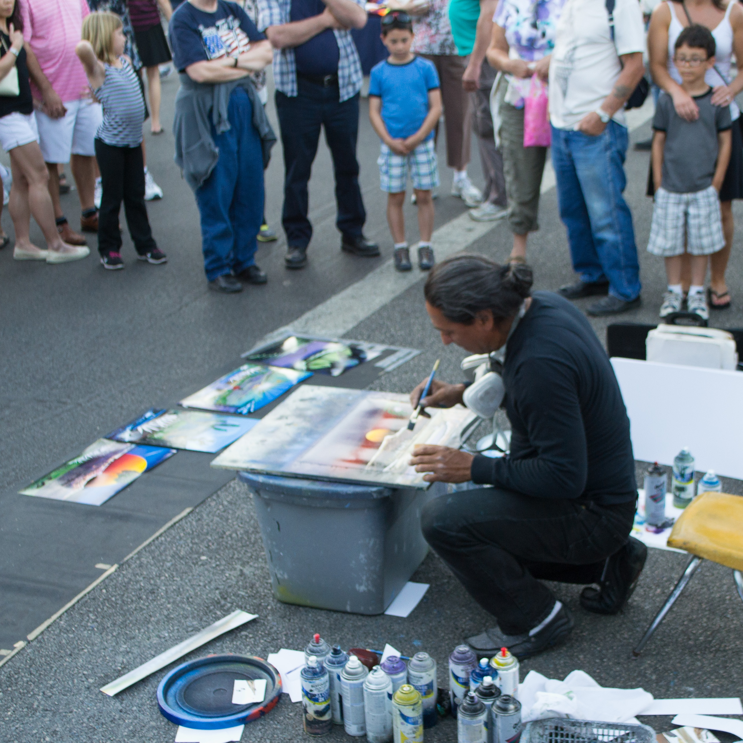 A street artist at Village Fest in Palm Springs